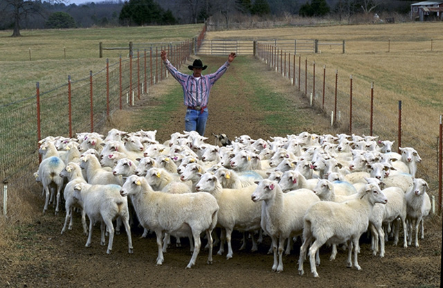 Sheep being herded at a USDA research facility in Arkansas.